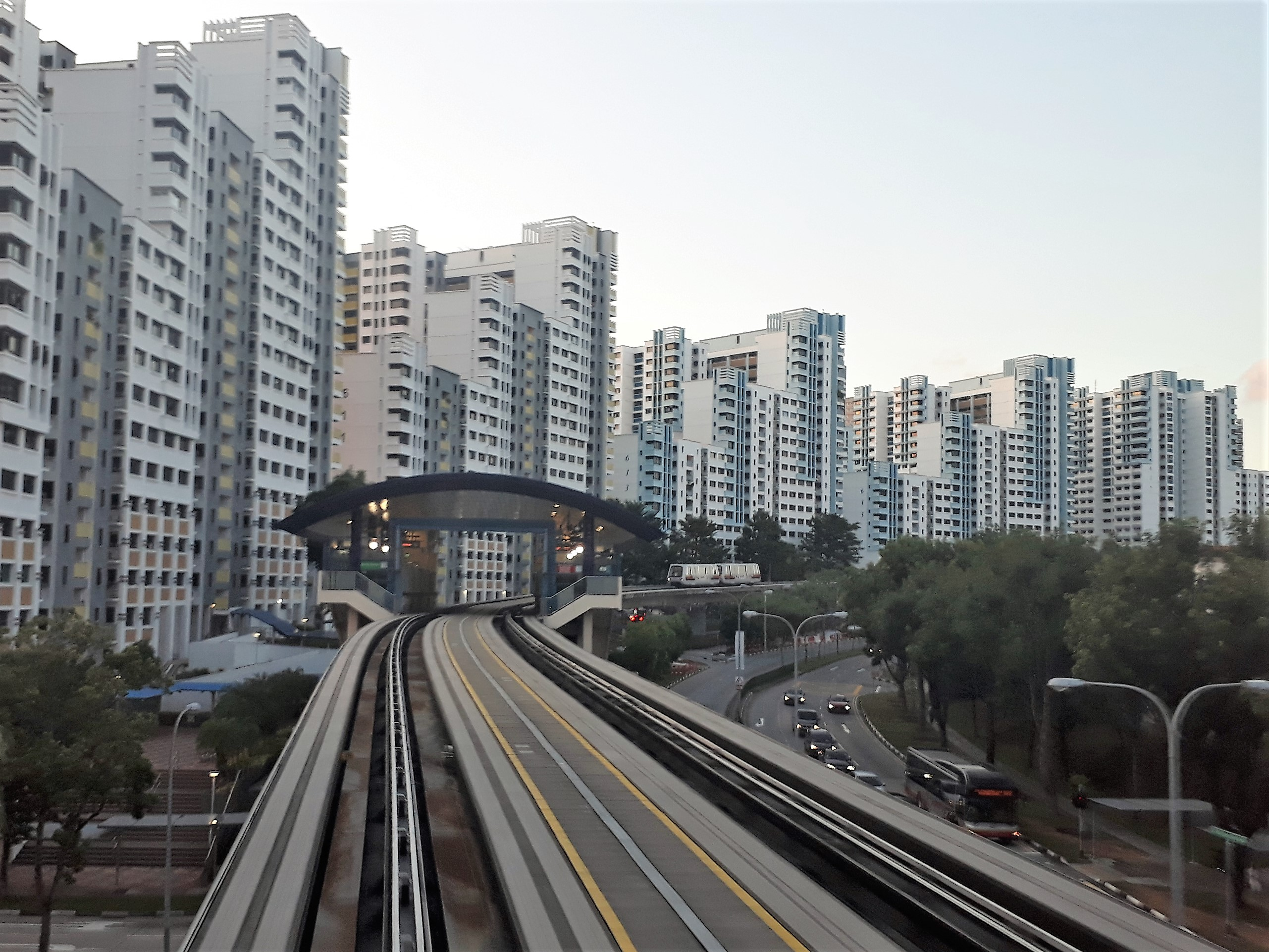 Senja LRT Station